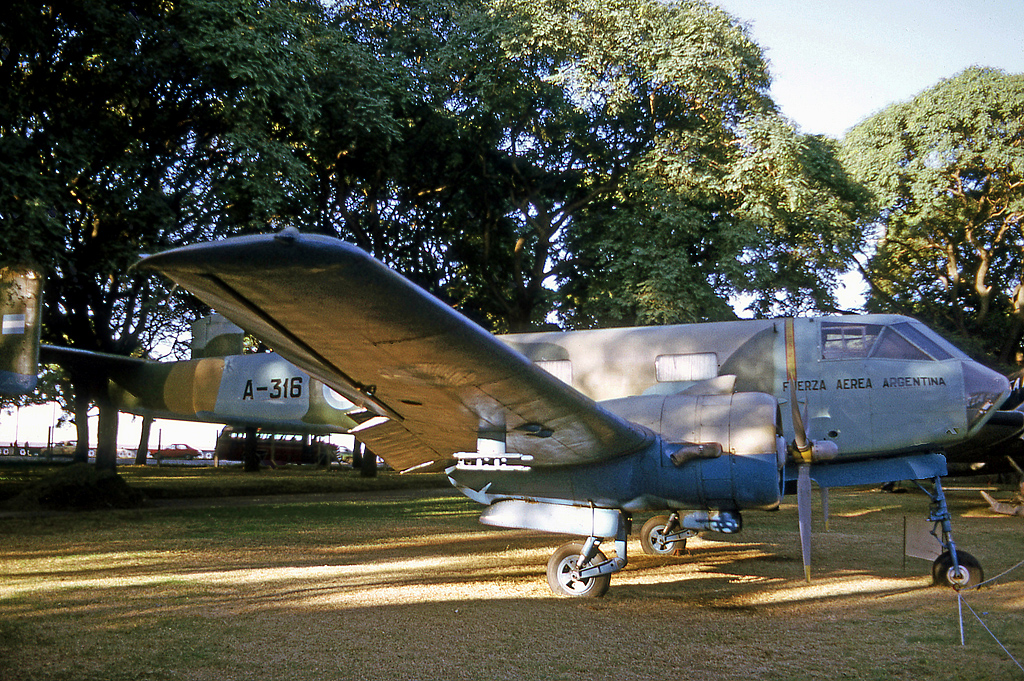 Dinfia I.A. 35 Huanquero A-316 preserved at Aeroparque Buenos Aires in 1975